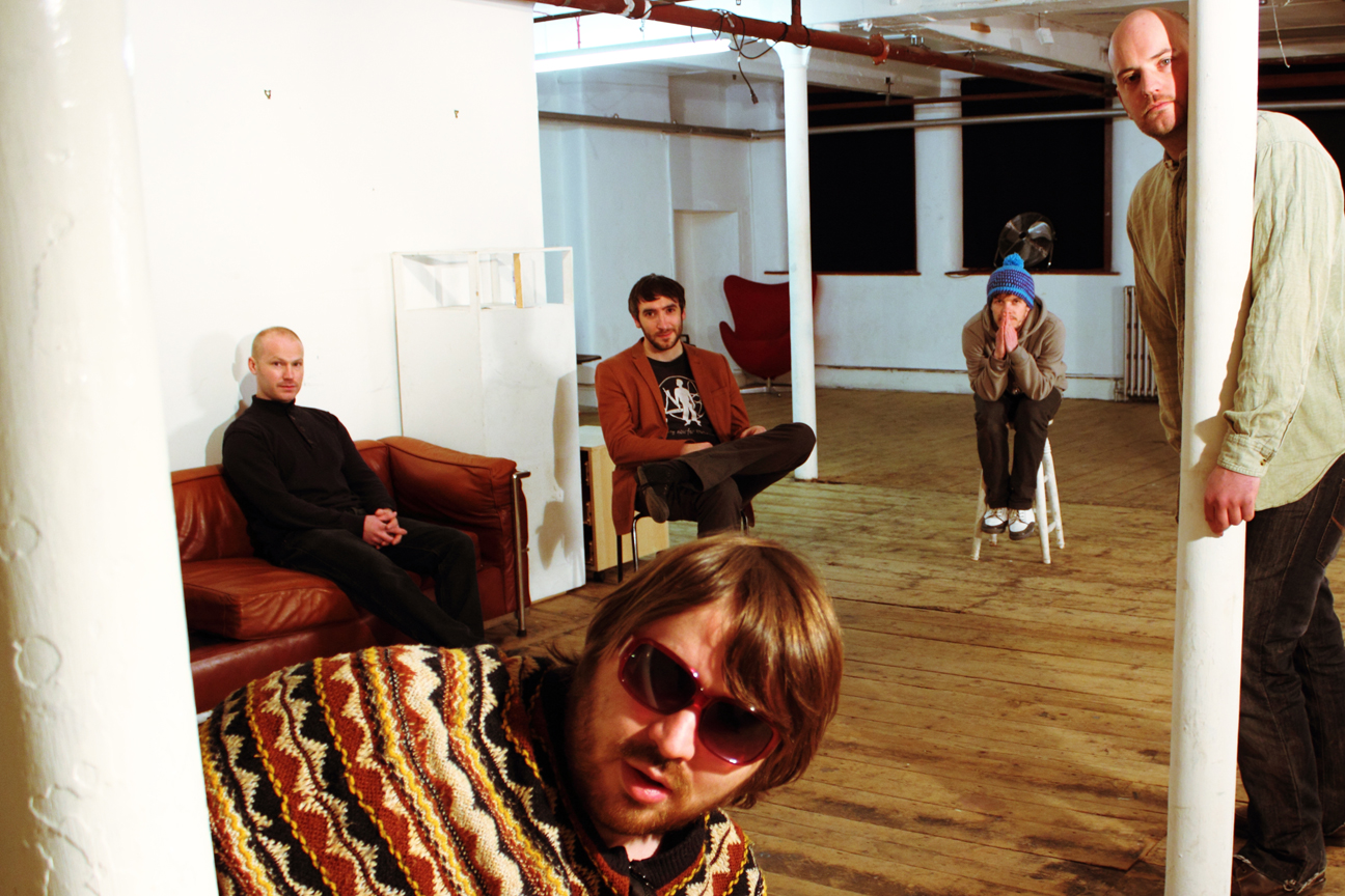 Politburo in 2012. Clockwise from Left: Steven Joseph, John Human, Phil Meredith, Dominic James, Nick Alexander